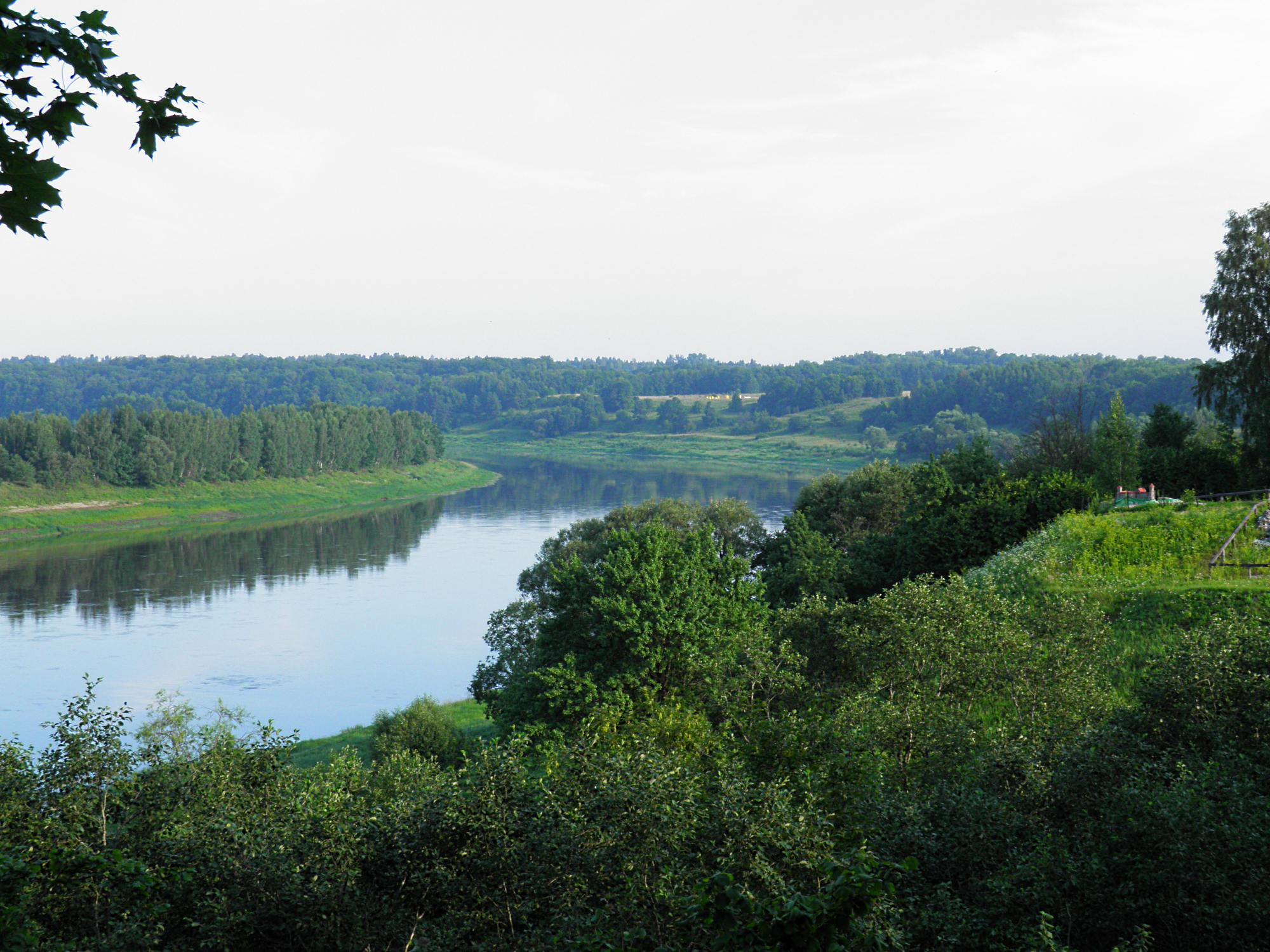 Scale model of Dinaburga Castle overlooking Daugava River